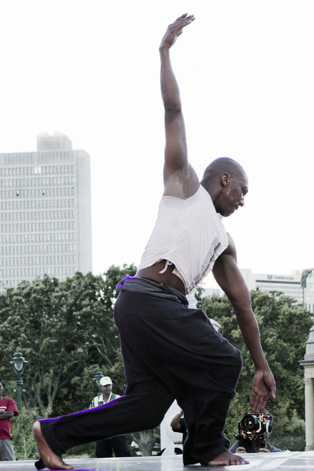 Infecting the City 2012. Africa Centre Vincent Mantose